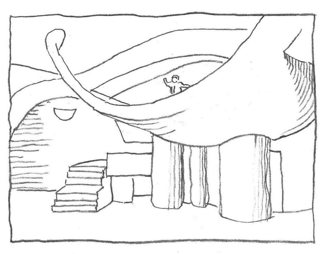 Drawing of the Paolo Soleri Amphitheater, Santa Fe, New Mexico